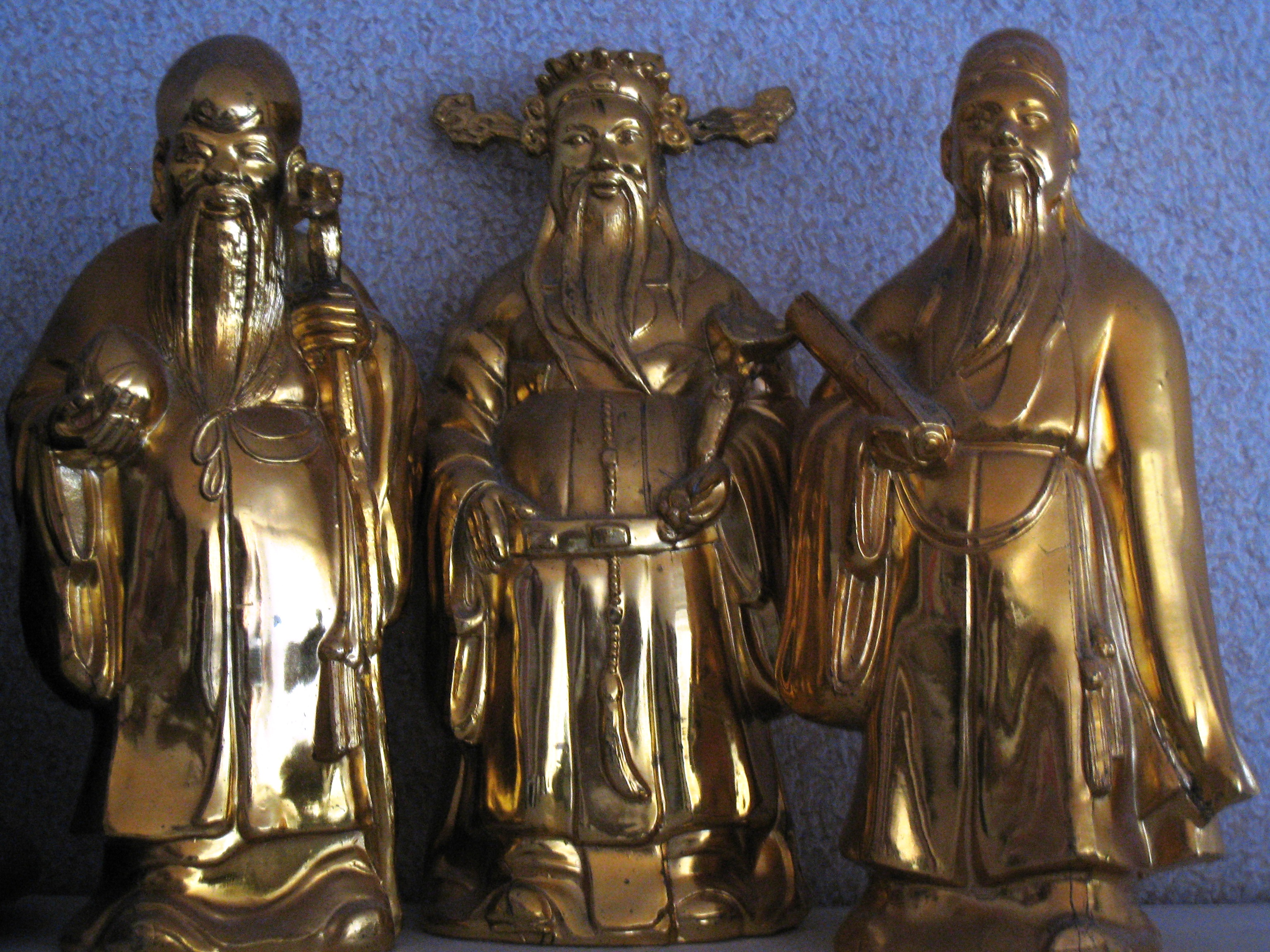 metal statues of Fu, Lu and Shou